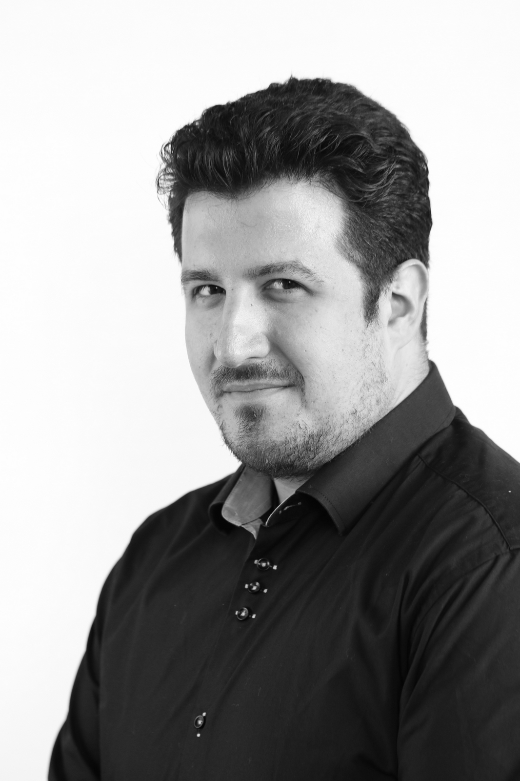 Portrait of maestro Igor Vlajnic, taken @ HNK Ivana pl. Zajca, september 2015